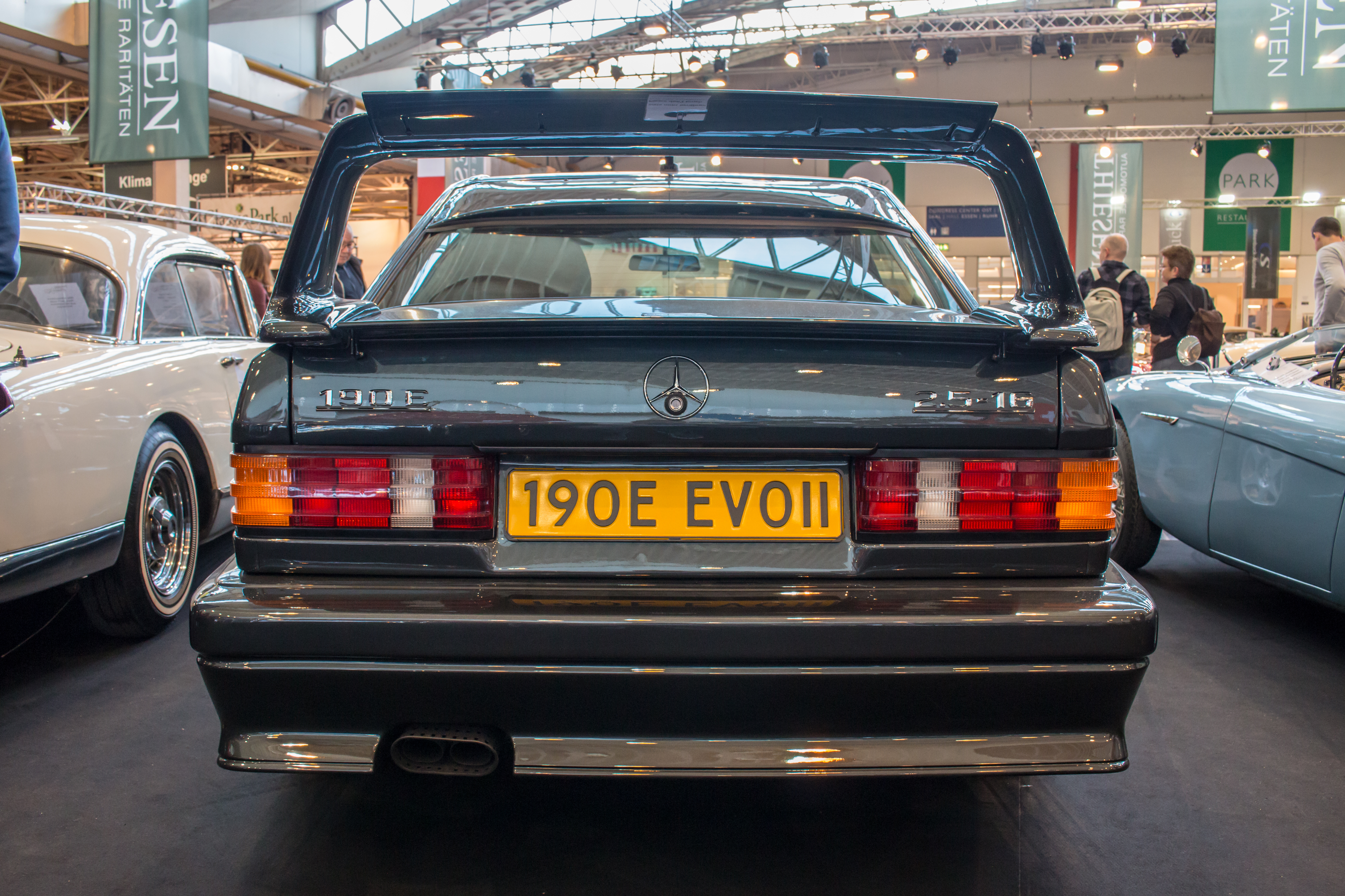 Techno Classica 2018, Essen